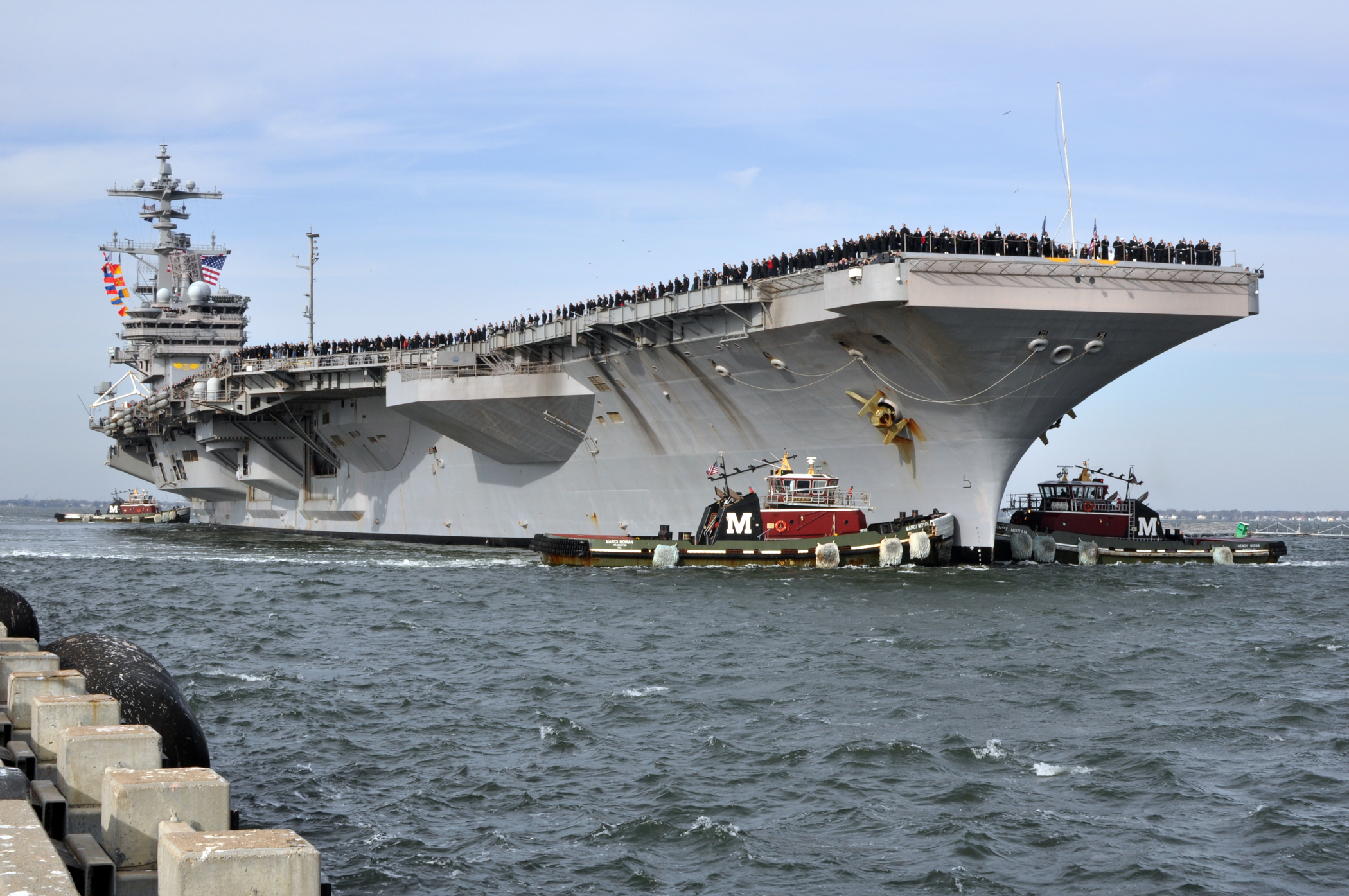 NORFOLK (Dec. 10, 2011) Sailors aboard the aircraft carrier USS George H.W. Bush (CVN 77) man the rails as the ship pulls into Naval Station Norfolk. George H.W. Bush completed its first combat deployment in support of Operations Enduring Freedom and New Dawn. (U.S. Navy photo by Mass Communication Specialist 2nd Class Timothy Walter/Released)